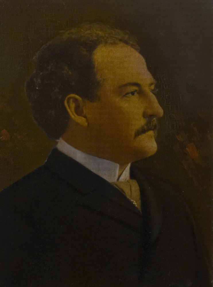 George Thomas Marks (1853-1907) served as Mayor of Port Arthur from 1893 to 1899.